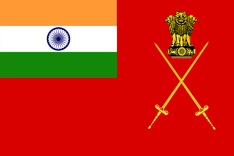 Flag of Indian Army